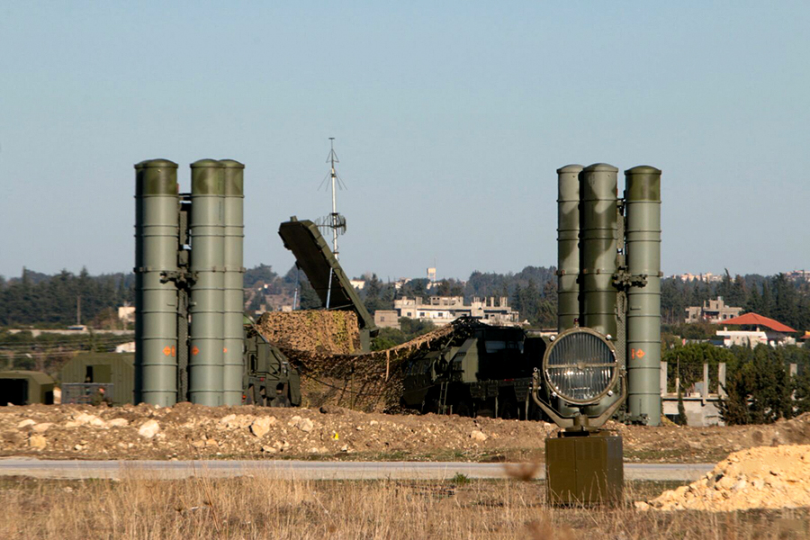 26.11.2015 Выгрузка зенитных ракетных комплексов С-300 (авиабаза «Хмеймим», Сирийская Арабская Республика)